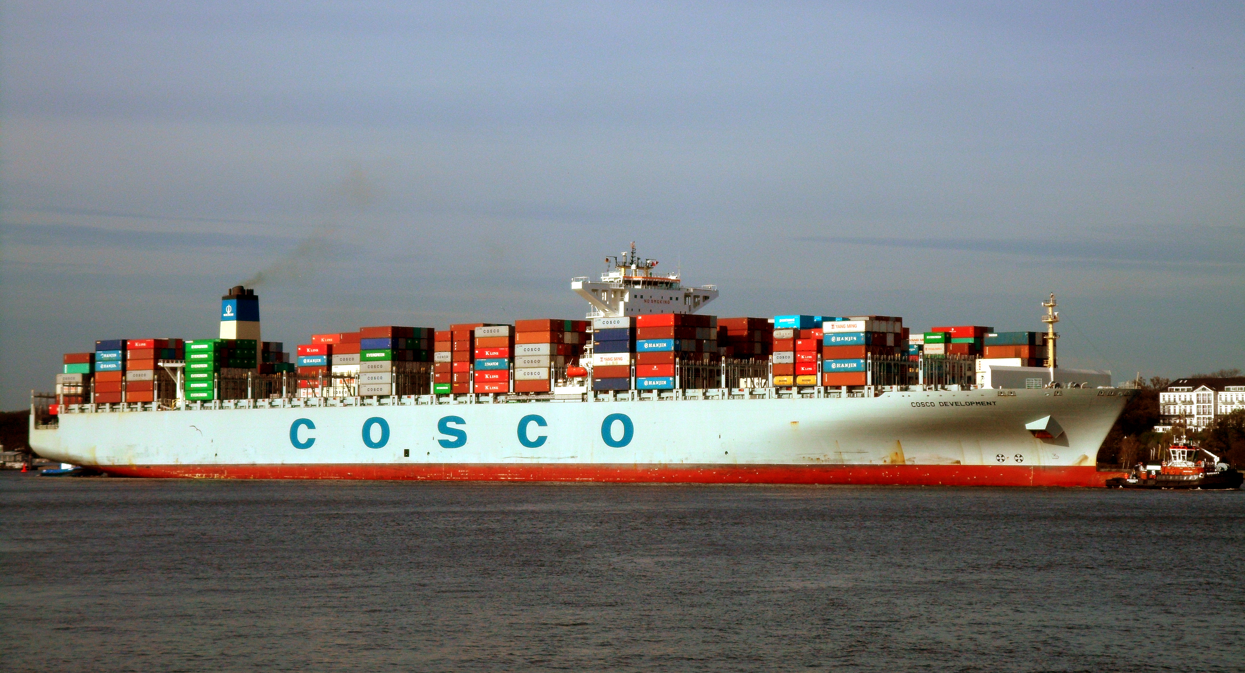 Container ship Cosco Development approach in Hamburg, in November 2013